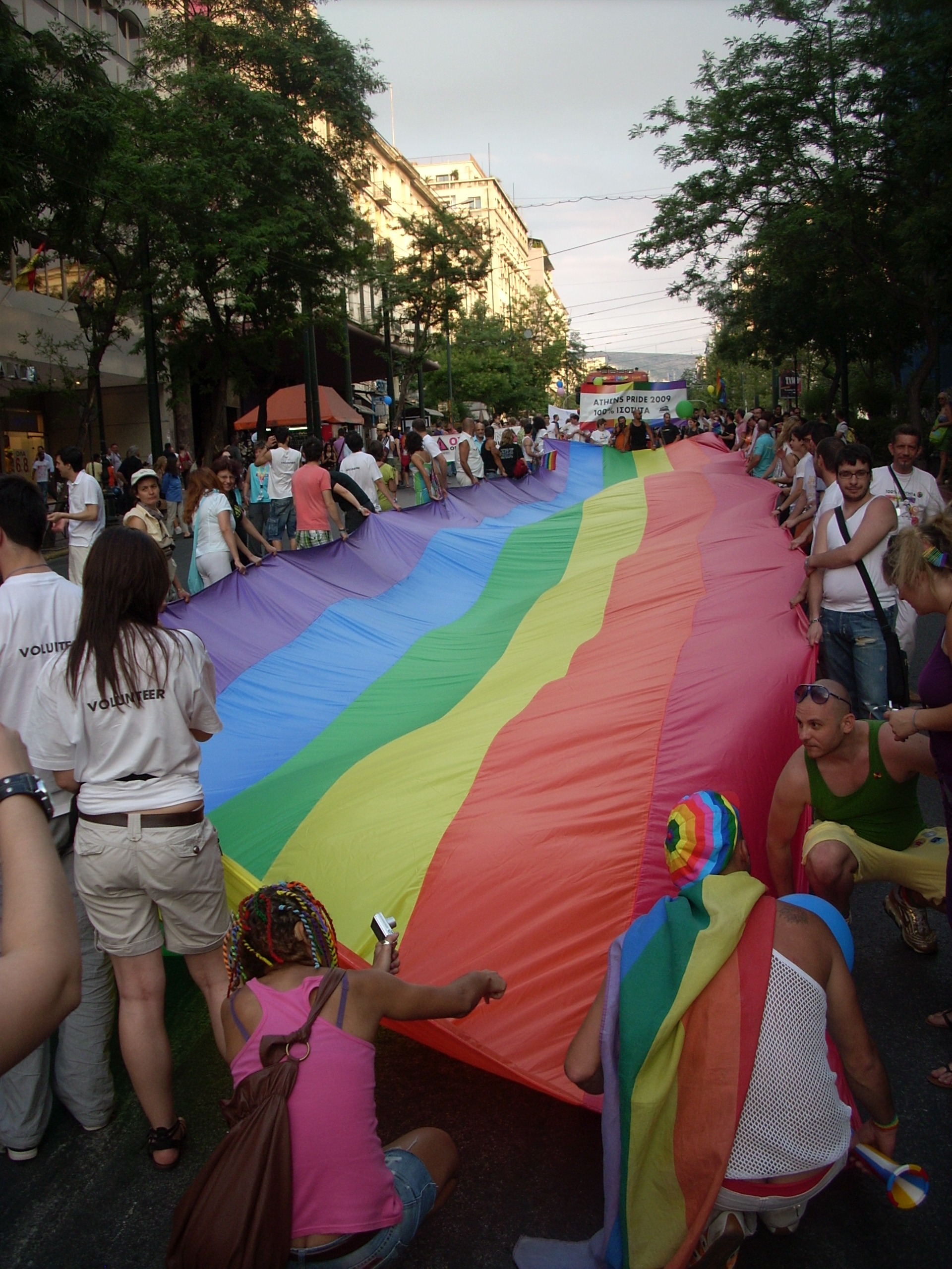 Athens Pride 2009